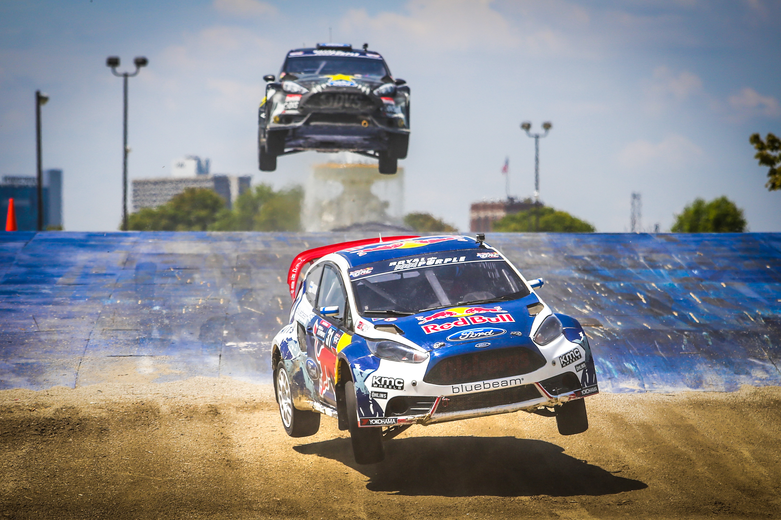 Joni Wiman followed by Brian Deegan. Round 6 of the 2015 Global Rallycross Championship at The Raceway at Belle Isle, Detroit, Michigan.